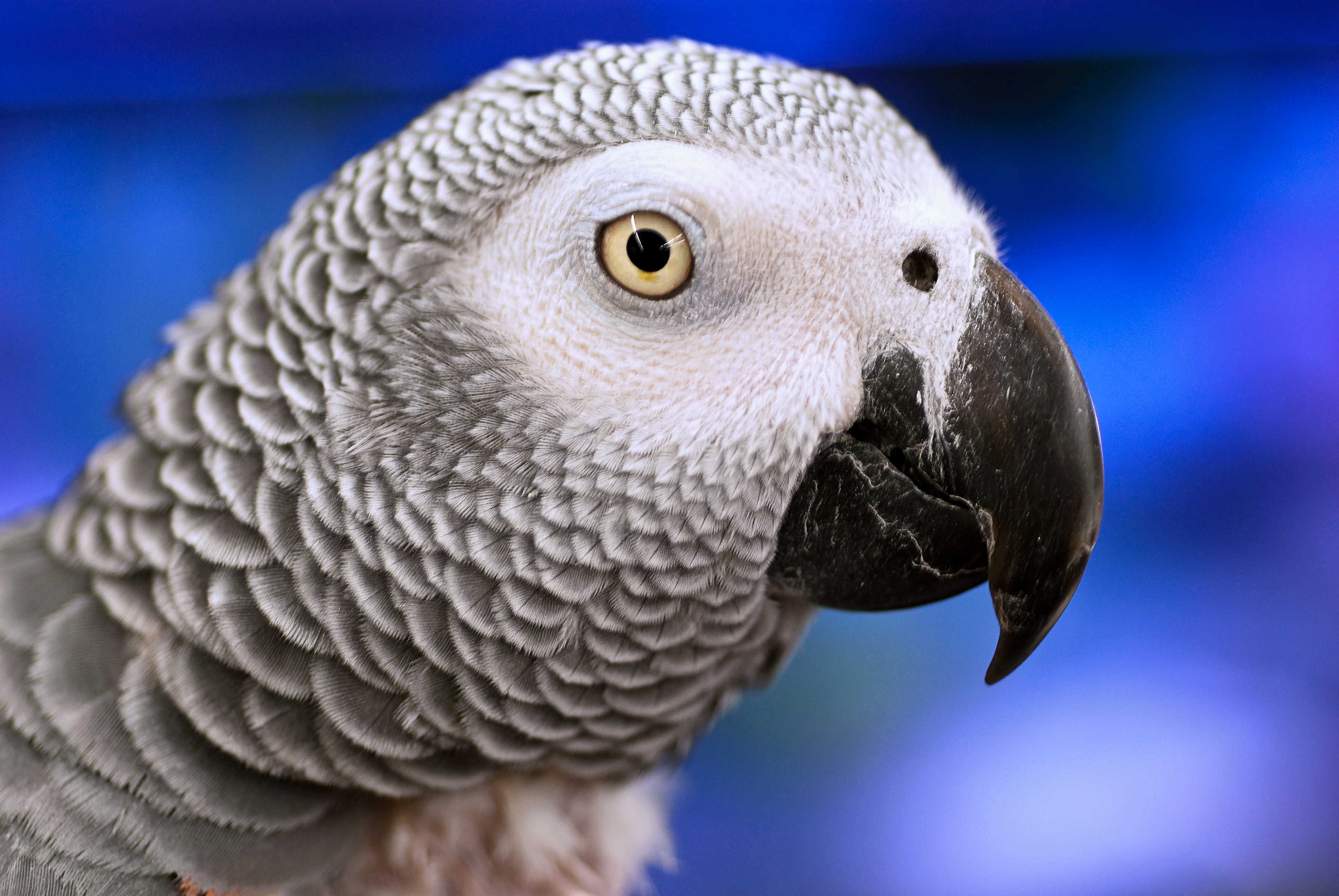 Close-up of an African Grey Parrot.